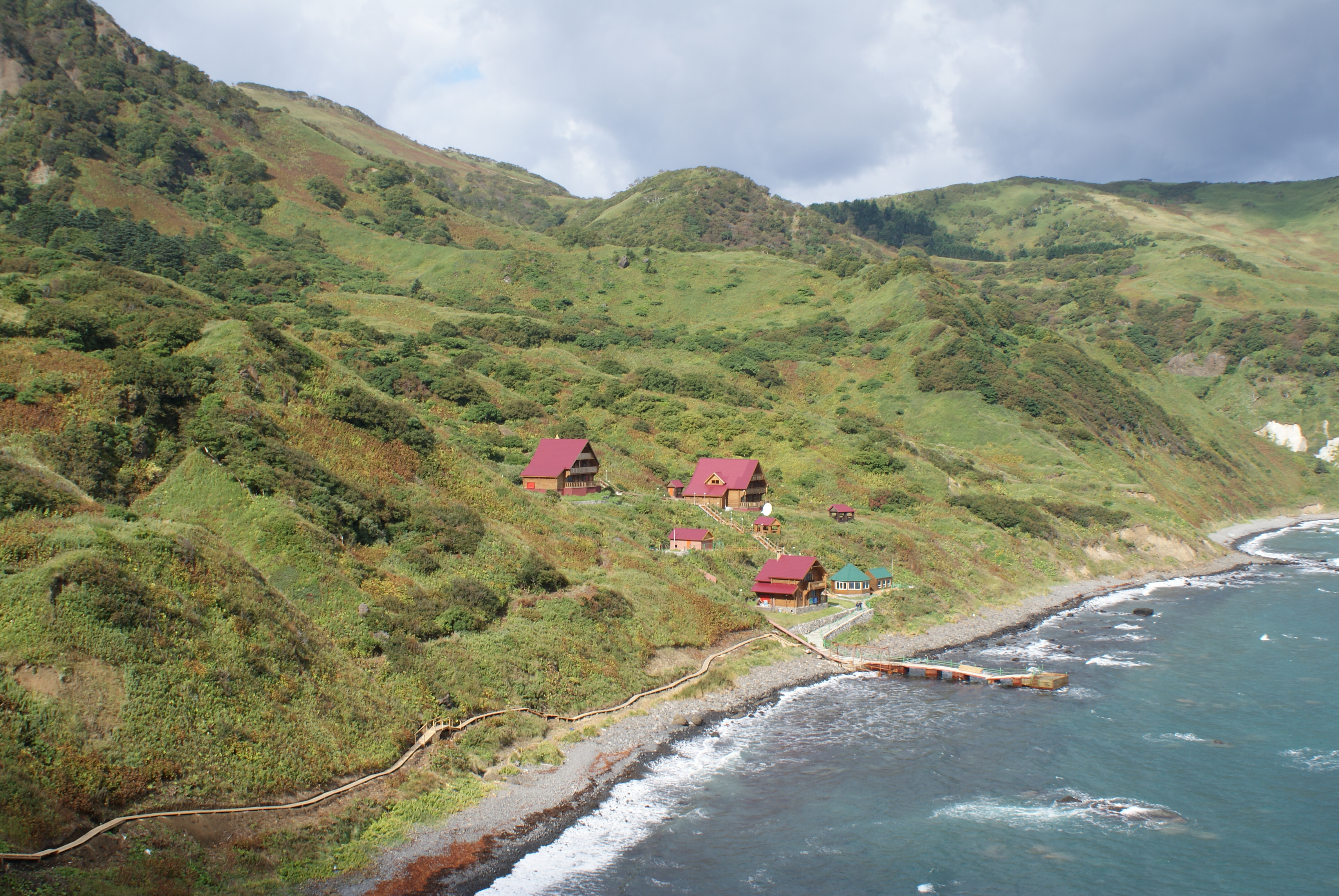 Tourist complex on Moneron Island (built in 2006). Belongs to the Natural park "Moneron Island". For visits a prearrangement is needed.